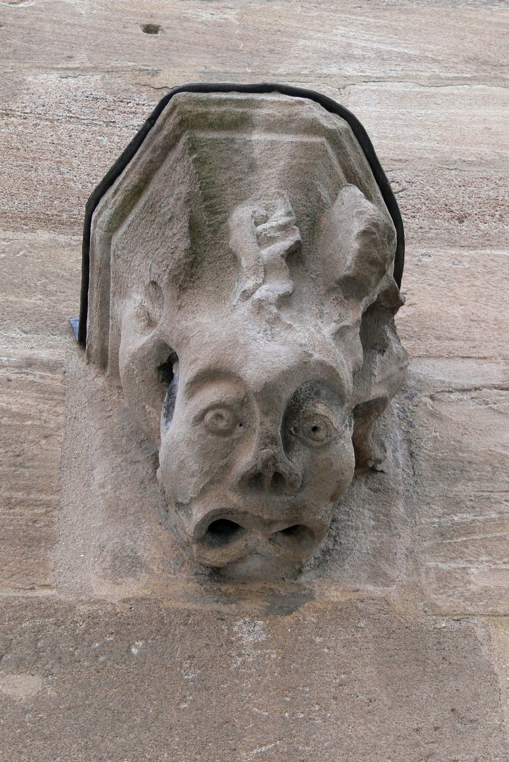 St.Andreas parish church in Weißenburg ( Bavaria ). Gothic corbel figure of monster head.